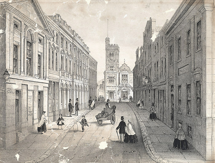 Abstract: A street scene showing local stores and shops. Quite a few people are walking on the street.